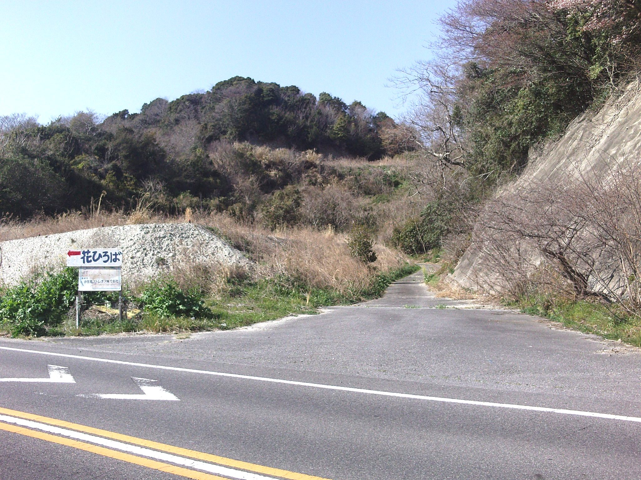 Aichi prefectural road No.278 in Nagasaka, Ohi, Minamichita-cho, Chita-gun, Aichi. This is the old prefectural road.